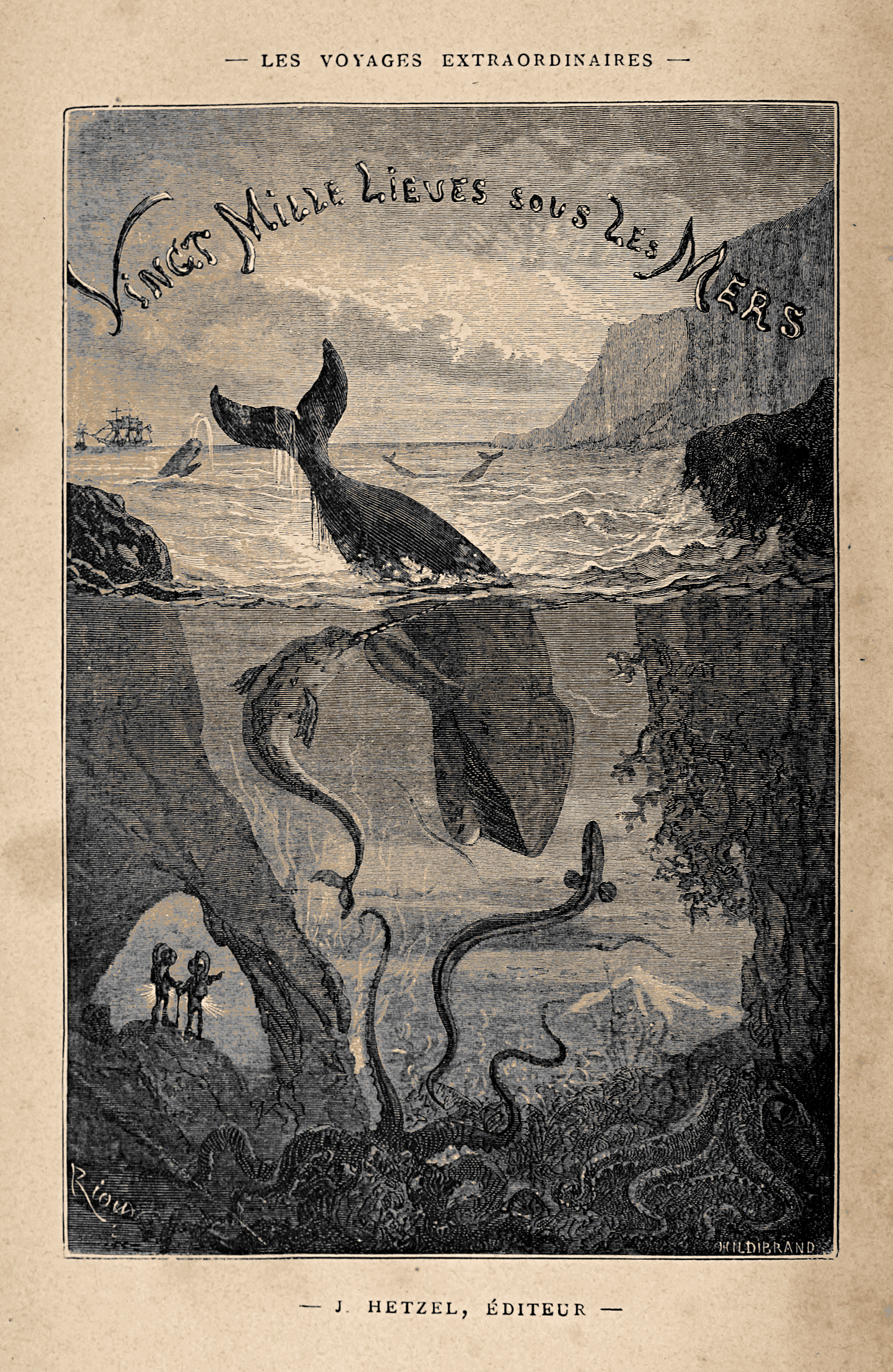 Frontispiece: From Vingt mille lieues sous les mers (20,000 Leagues Under the Sea), Paris: J. Hetzel, 1871. FC8 V5946 869ve, Houghton Library, Harvard University